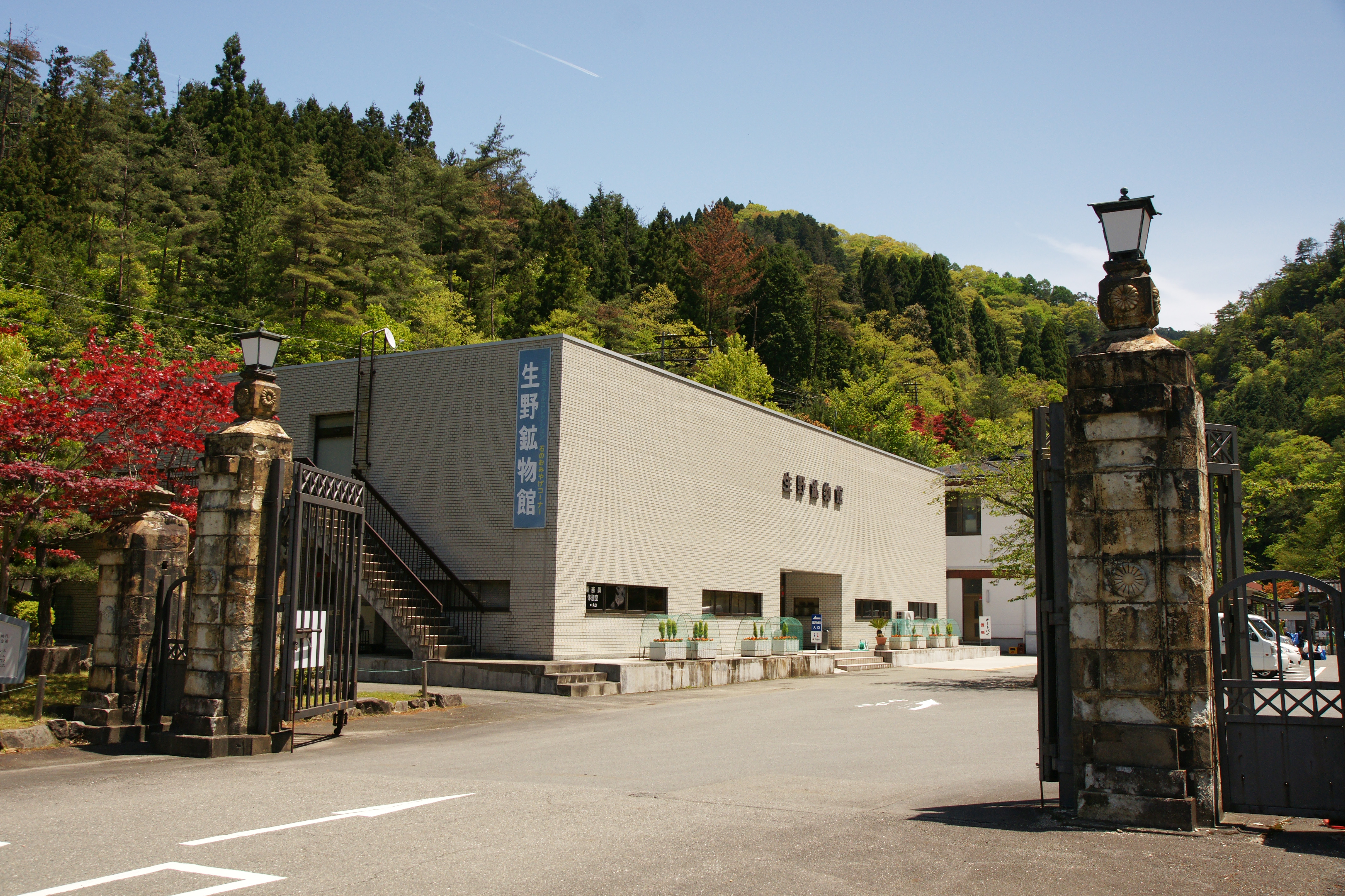 Ikuno mineral Museum of Ikuno Ginzan Silver Mine in Ikuno, Asago, Hyogo prefecture, Japan.